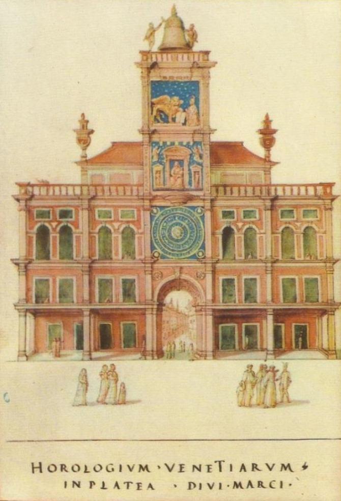 The Clocktower on St Mark's Square, Venice, as drawn by Francisco de Holanda in his Álbum dos Desenhos das Antigualhas (1538-1540).